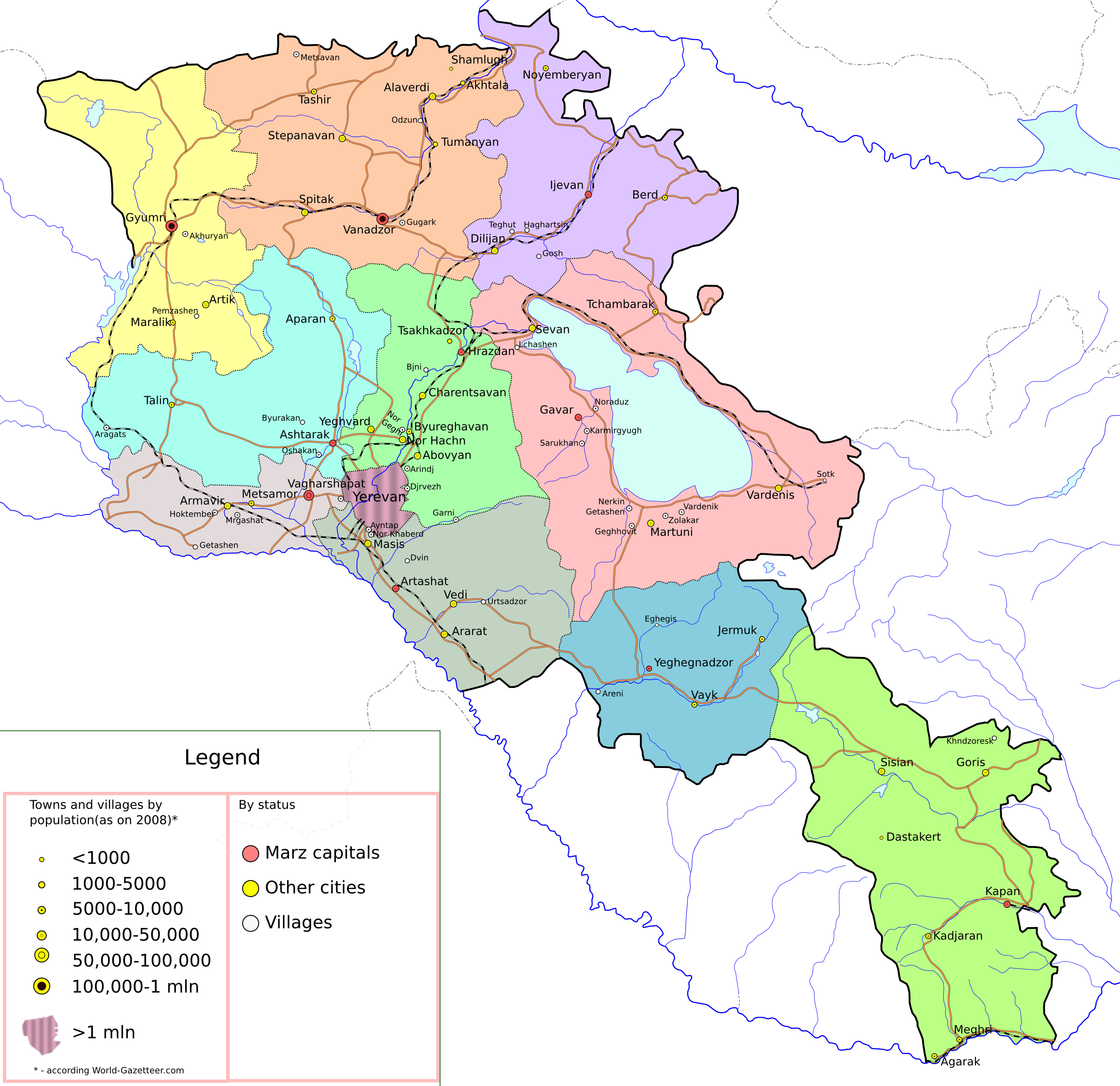 Cities of Armenia on administrative map. Population of the cities is given according English version